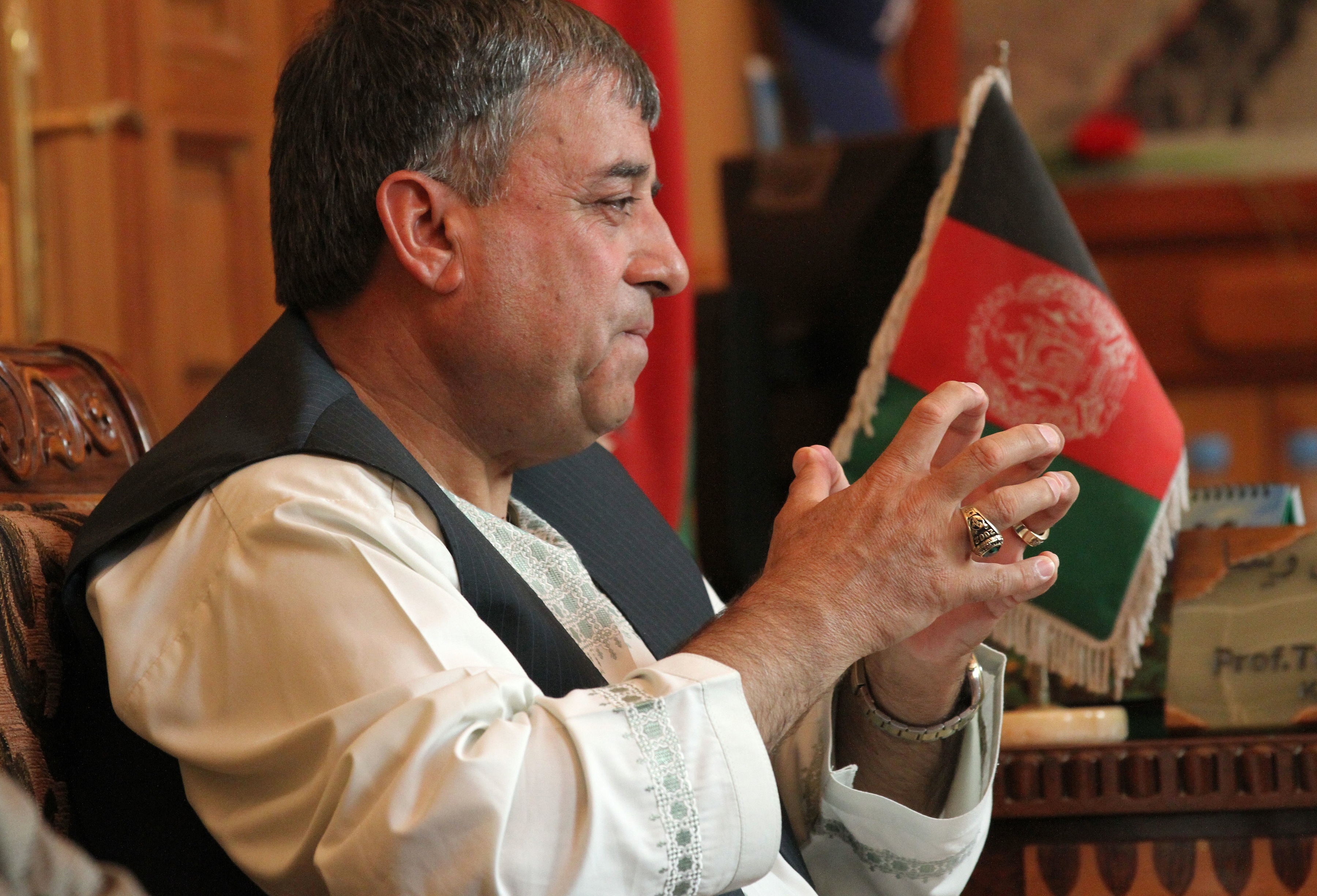 Kandahar Governor Tooryalai Wesa talks with Ambassador Ryan Crocker in the governor's palace at Kandahar, Afghanistan.